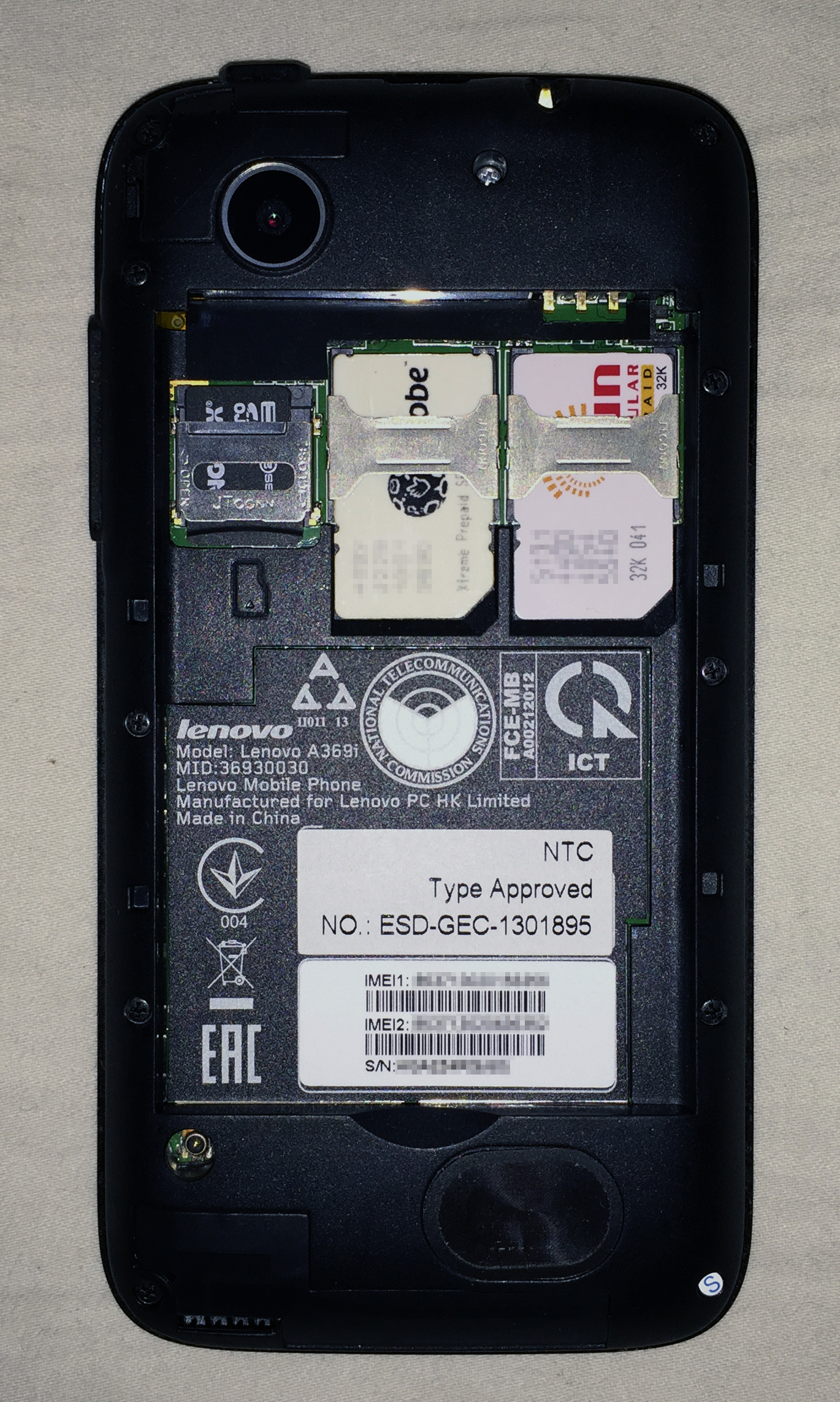 Dual SIM slots as shown on a Lenovo A369i. IMEI numbers are obfuscated (pixellated) for security reasons.